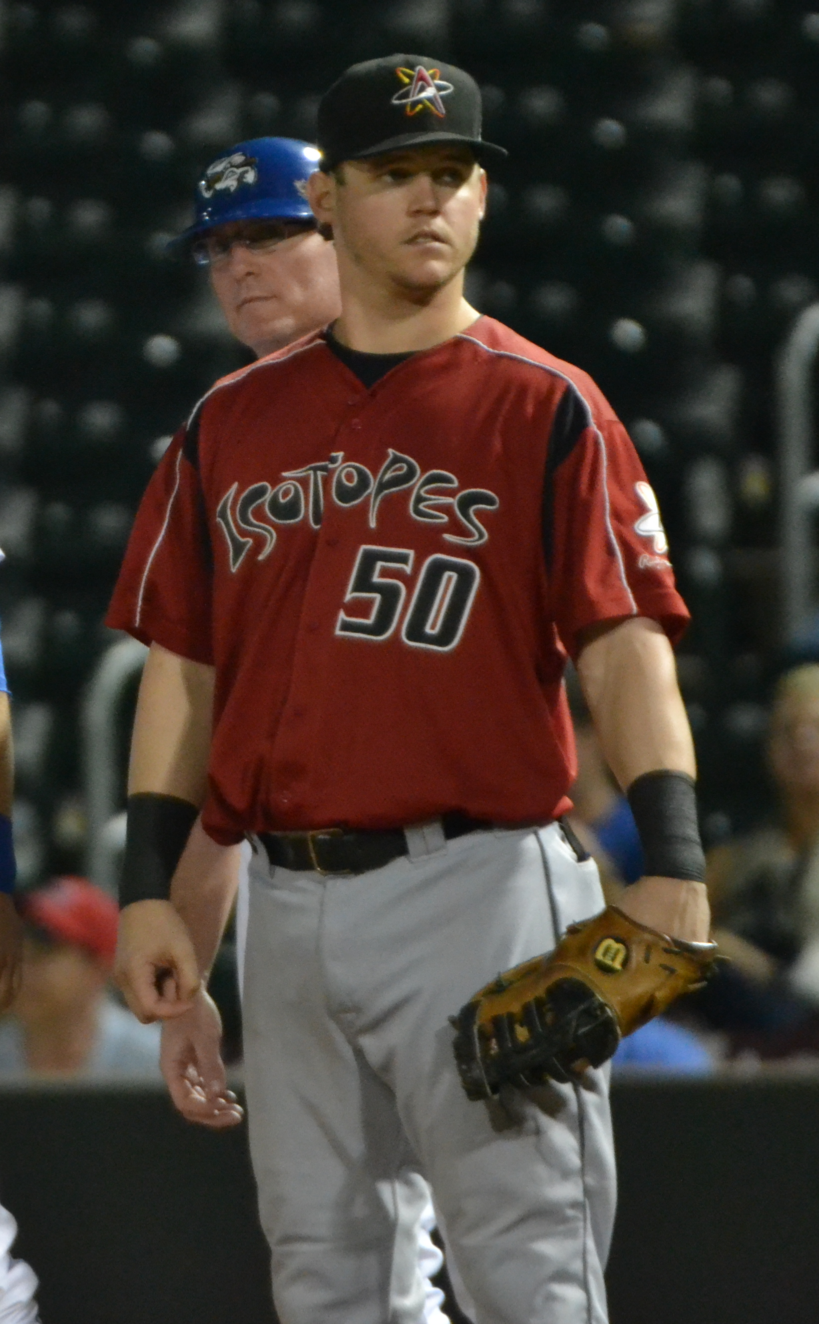 Jerry Sands